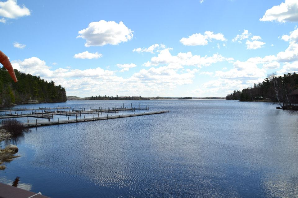 View from the landing on lake vermilion.